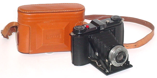 An Ansco B2 Speedex Junior camera, circa 1940. I took this photo and release all rights. Cranialsodomy 23:29, 17 May 2006 (UTC)